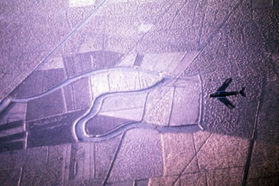 A North Vietnamese Mikoyan-Gurevitch MiG-17 photographed during a dogfight with a U.S. Navy McDonnell F-4B Phantom II from Fighter Squadron VF-161 Chargers. VF-161 was assigned to Attack Carrier Air Wing 5 (CVW-5) aboard the aircraft carrier USS Midway (CVA-41) for a deployment to Vietnam from 10 April 1972 to 8 March 1973.